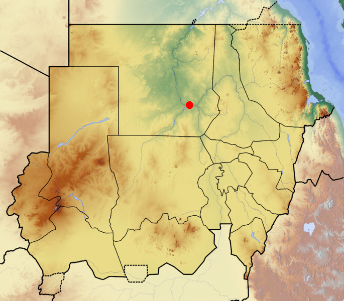 Map showing location of archaeological site Affad 23 in Sudan